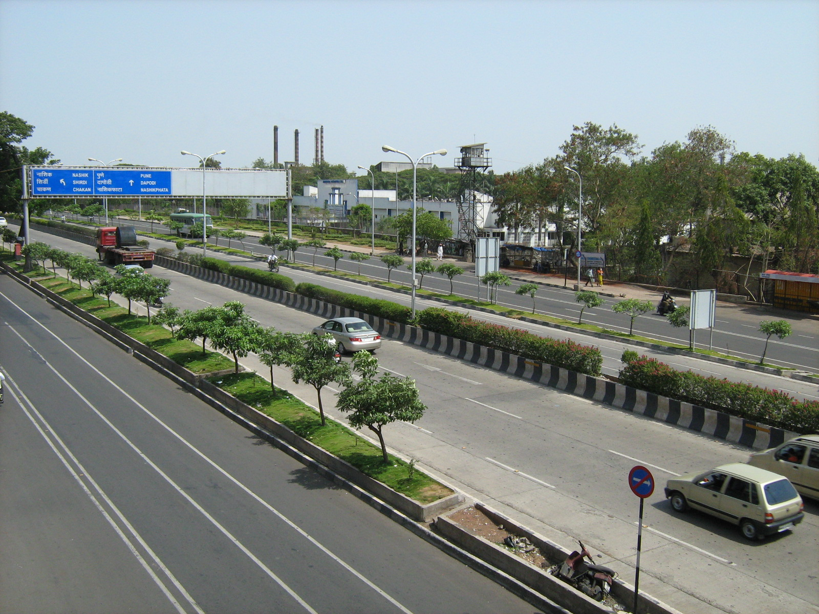 All eight lanes of the Old Pune-Mumbai Highway, as seen from a pedestrian overbridge in Pimpri